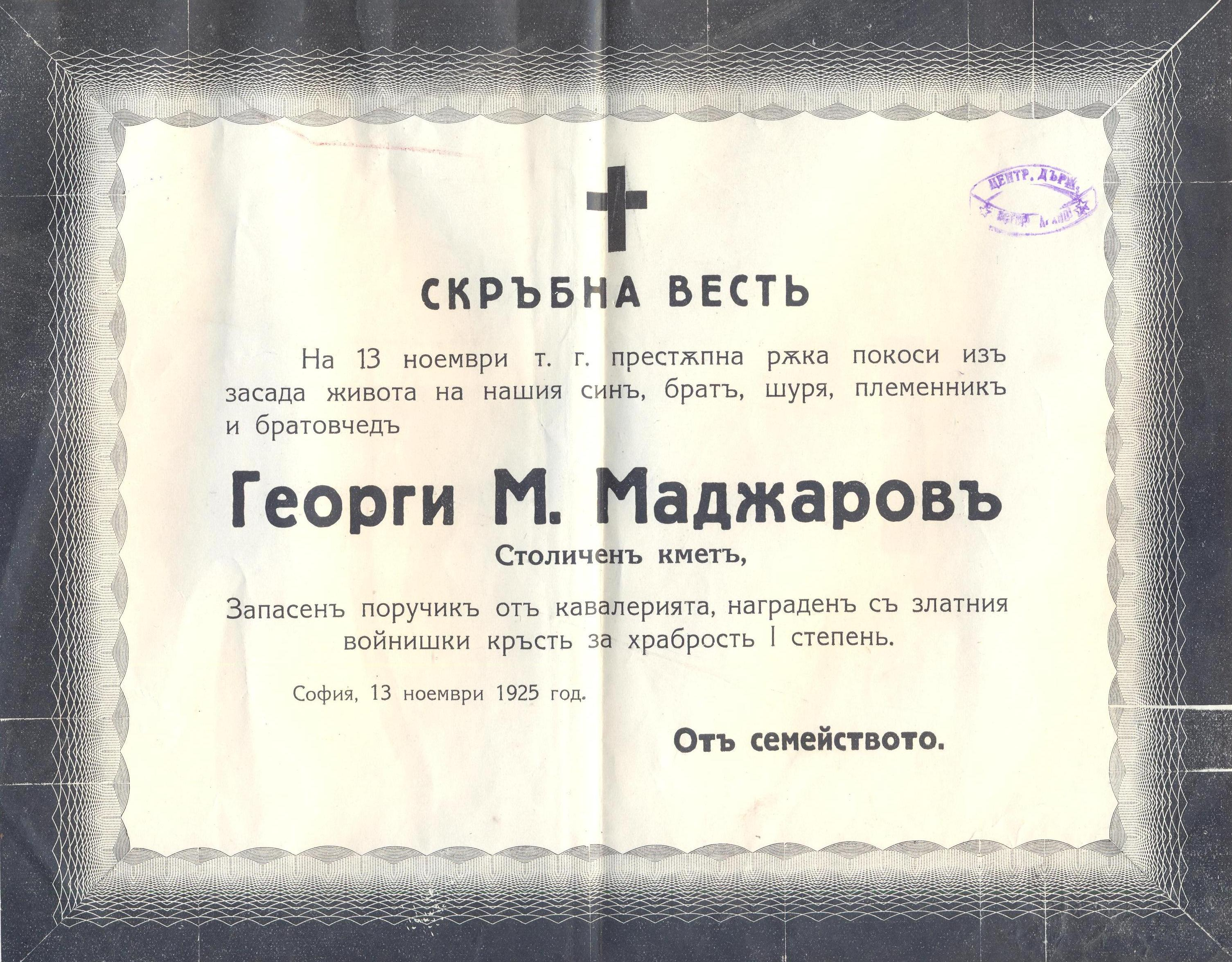 Georgy Madzharov-Obituaries, 13.11.1925.